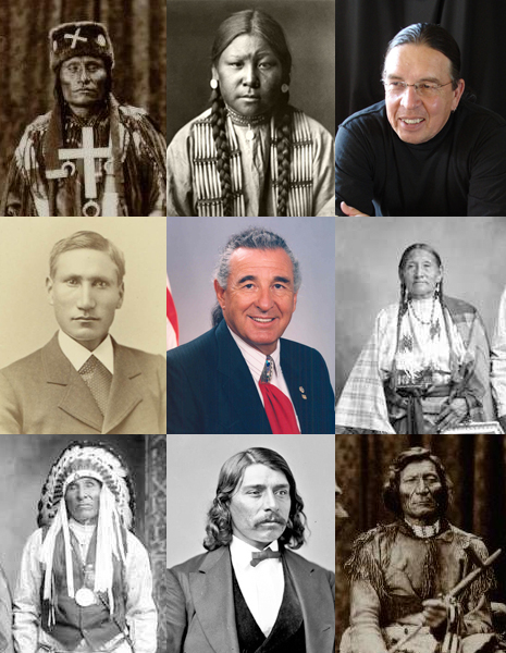 A Cheyenne collage from public domain sources.